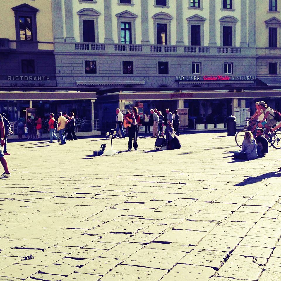 Street Music, rock guitar